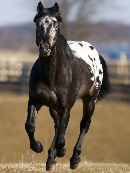 Photo we took this summer of our Supreme Champion Stallion and Worlds Best Appaloosa "Zip Me Impressive", Saddlebrook Appaloosas